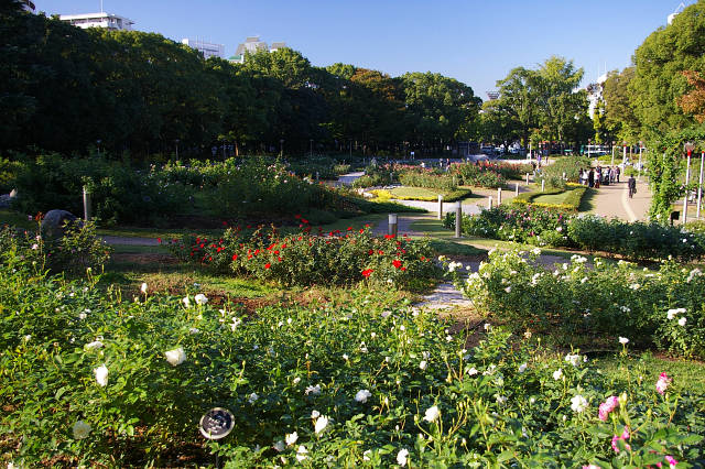 Rose garden at Utsubo Park, Osaka city, Japan